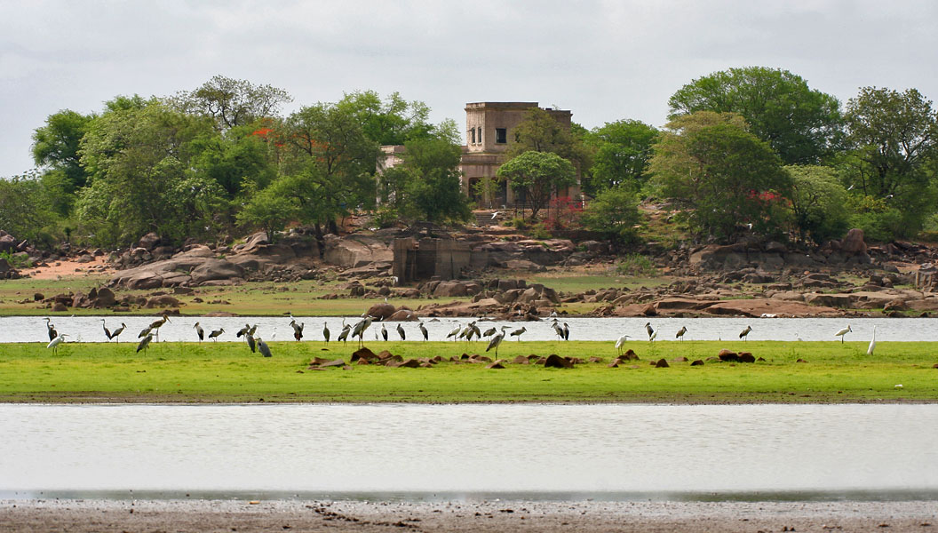 A view from Pocharam lake, Andhra Pradesh, India.